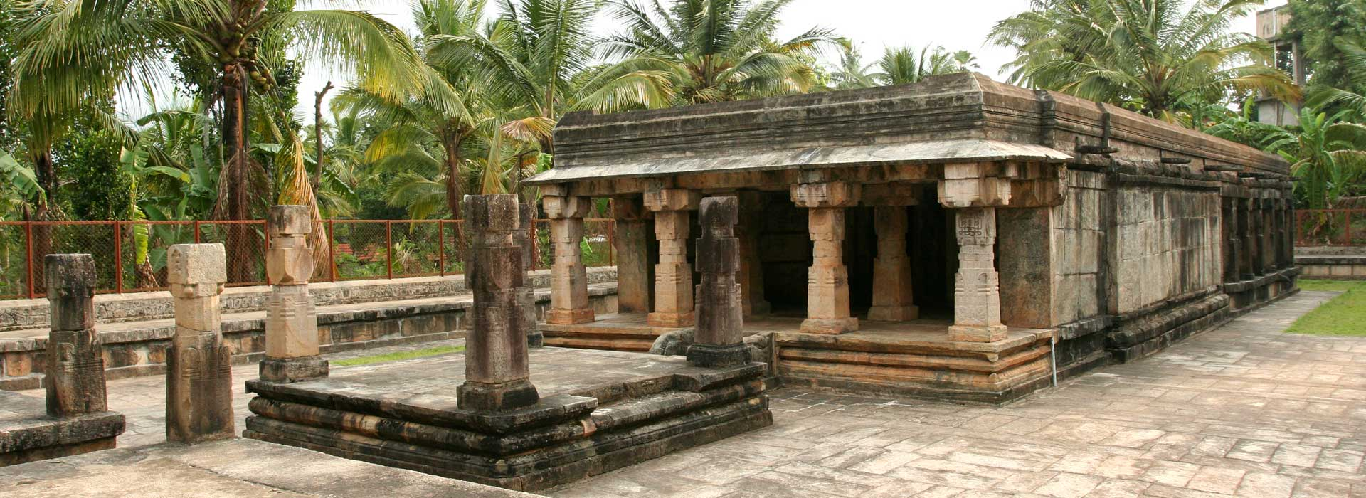 Beautiful landscape